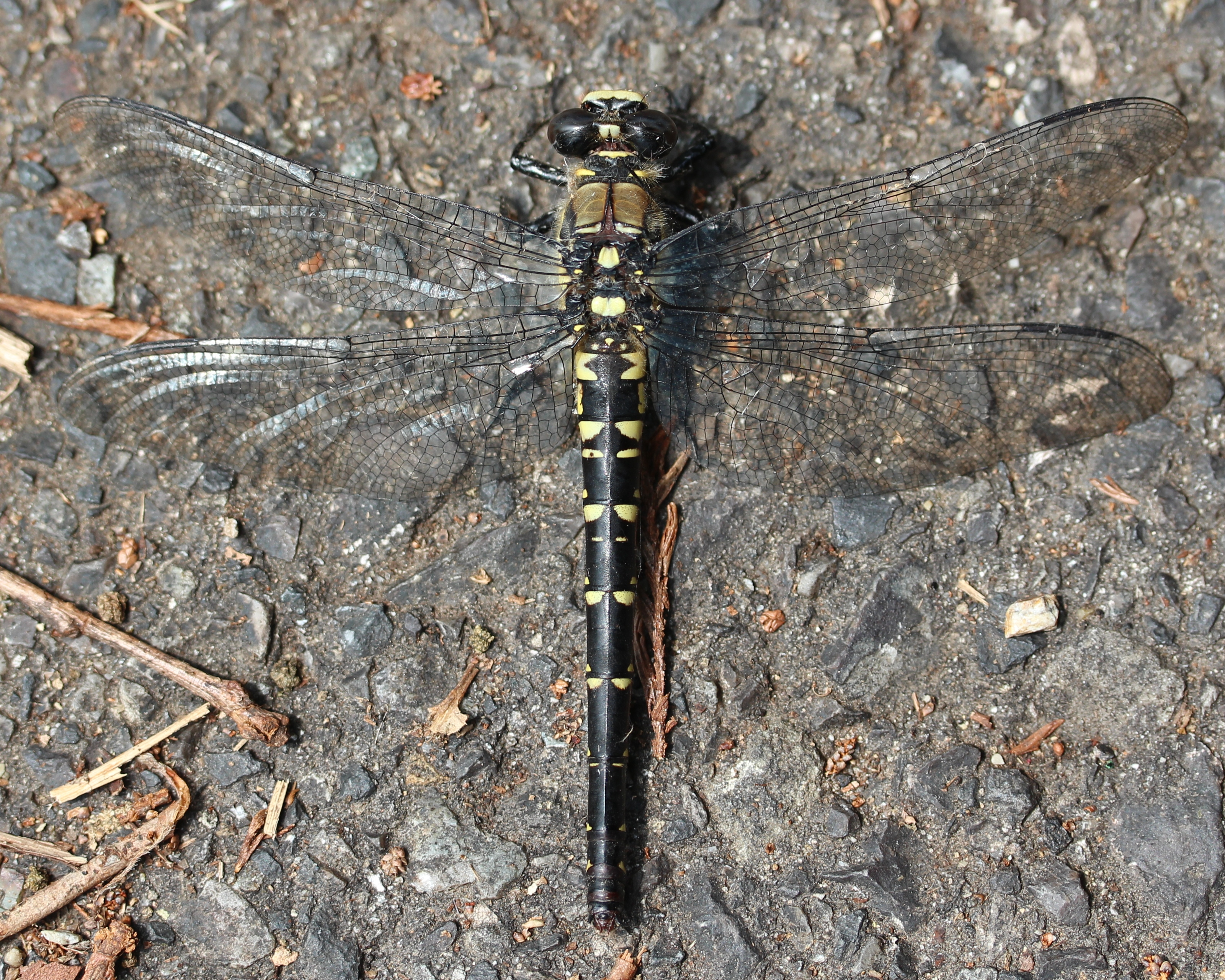 Tanypteryx pryeri on road in Japan